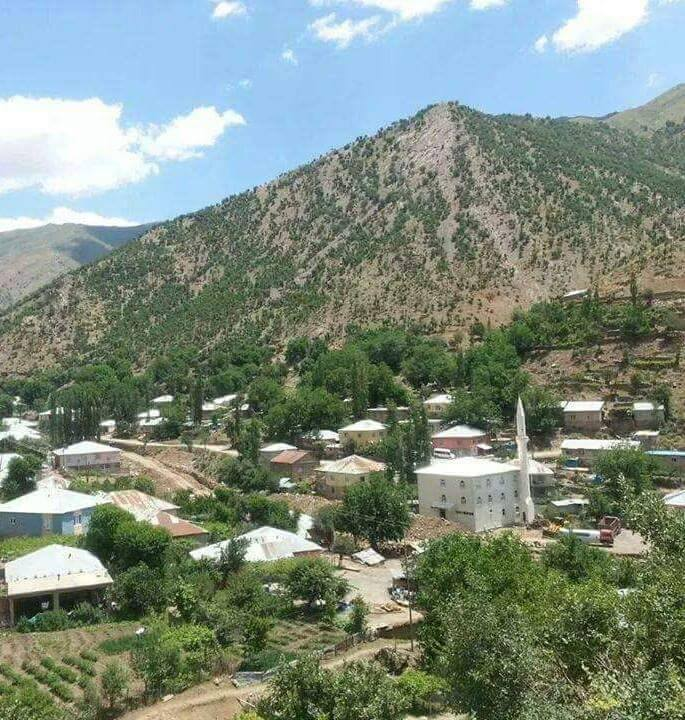 Ortakoy in Southeastern Turkey. Before, it was an Assyrian village called Geramon.